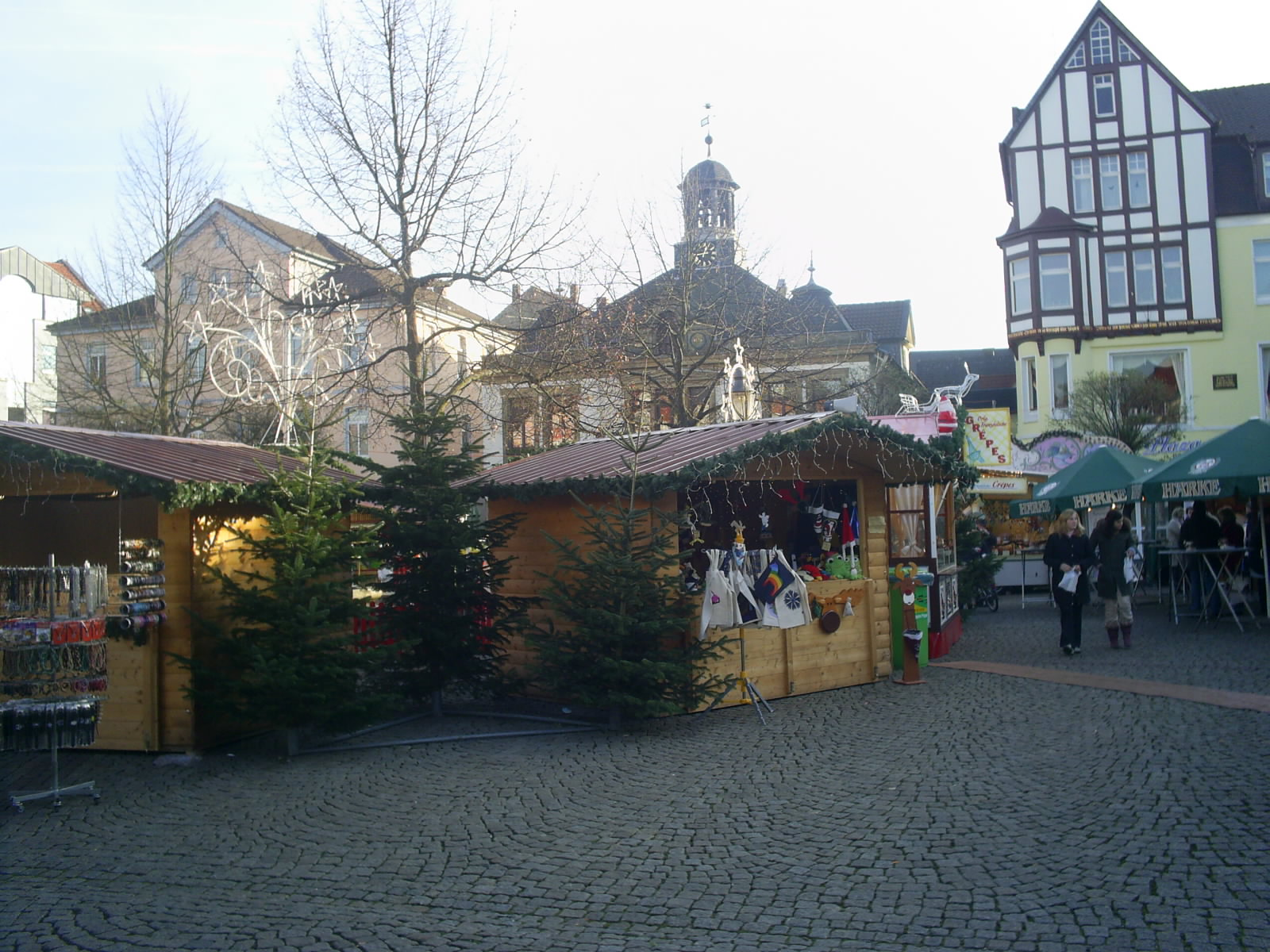 Christmas market on the historical market square in Peine, Lower Saxony, Germany.